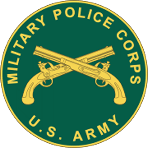 US Army Military Police Branch Plaque